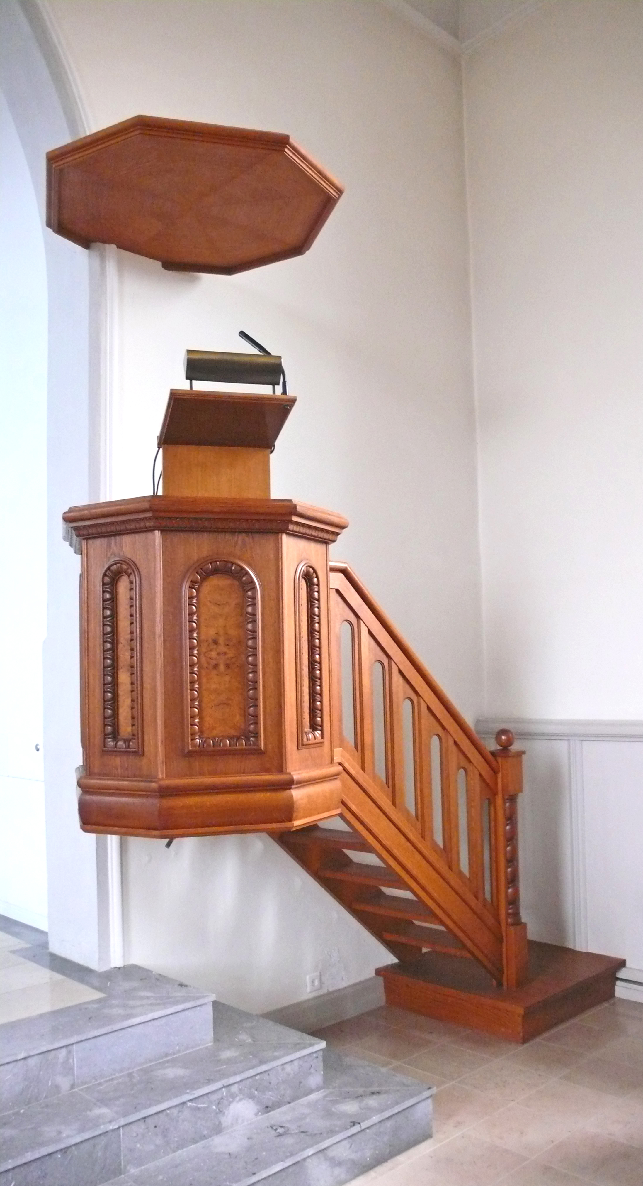 Pulpit in the church of Scherzingen, Switzerland.